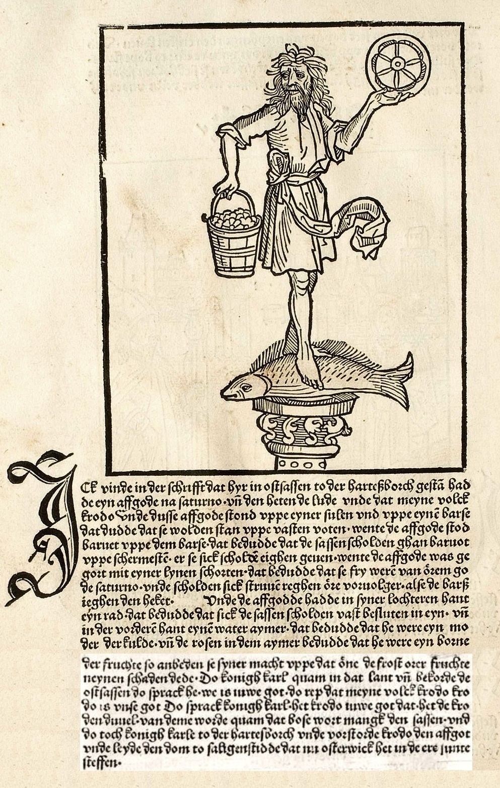 Earliest mention and description of "Krodo", an alleged pre-Christian deity of the Saxons (1492)